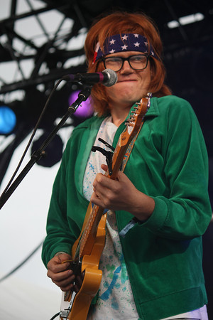 Brett Dennen performs at Life is Good Festival, Canton, MA 2010-09-12